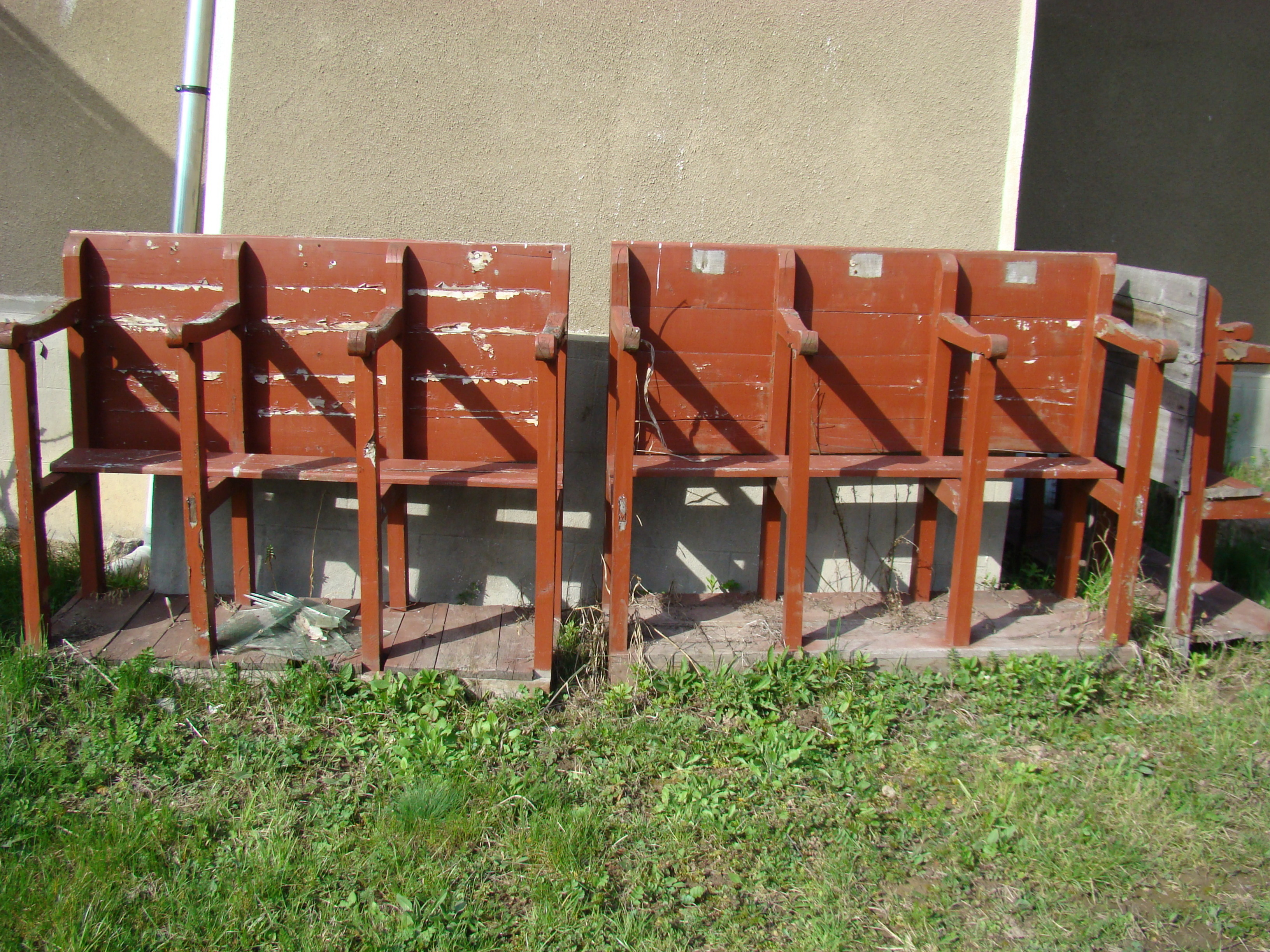 Wooden church in Iosășel, Arad county, Romania